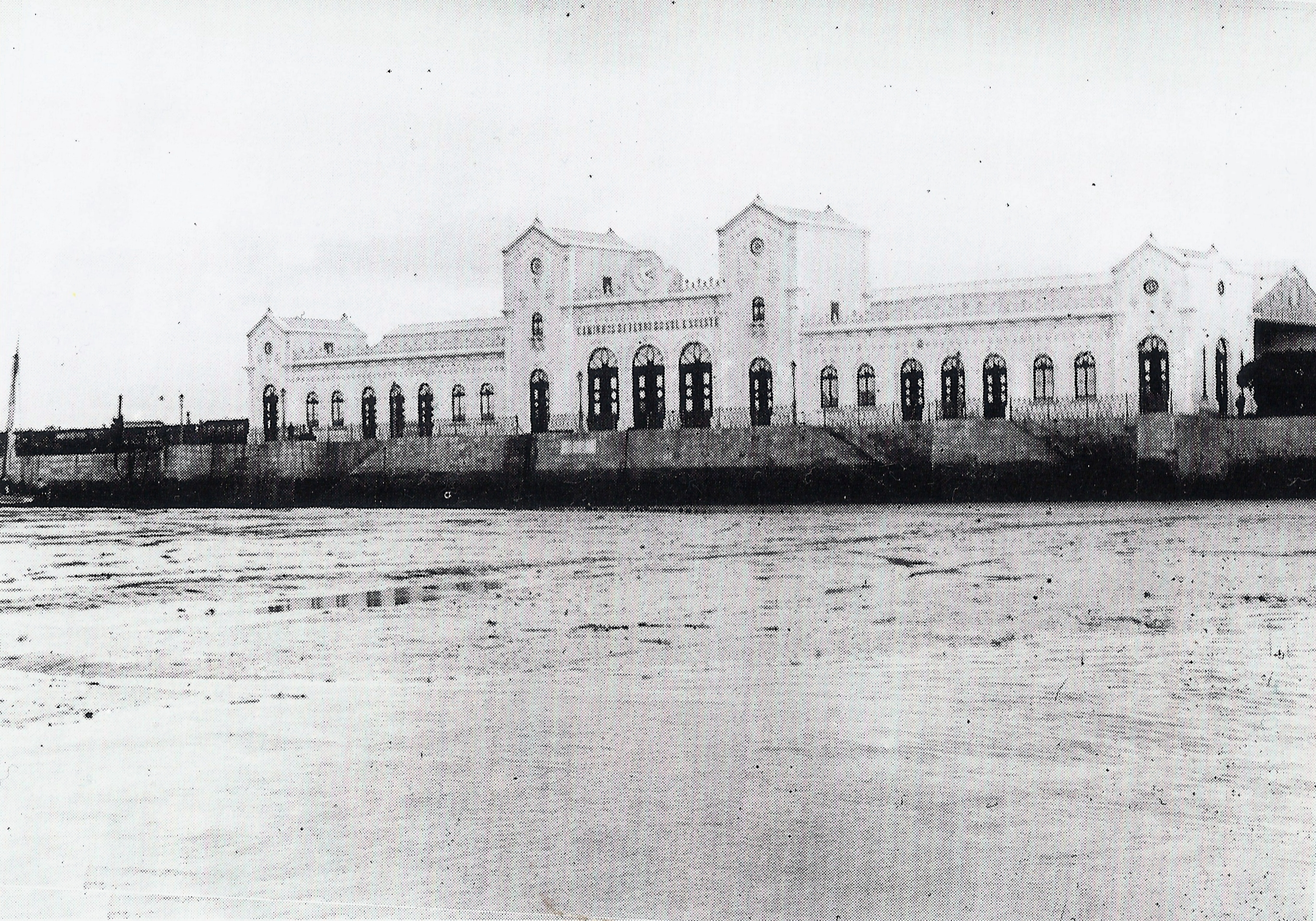 Barreiro Train Station, old terminus of the Alentejo Railway, in southern Portugal.